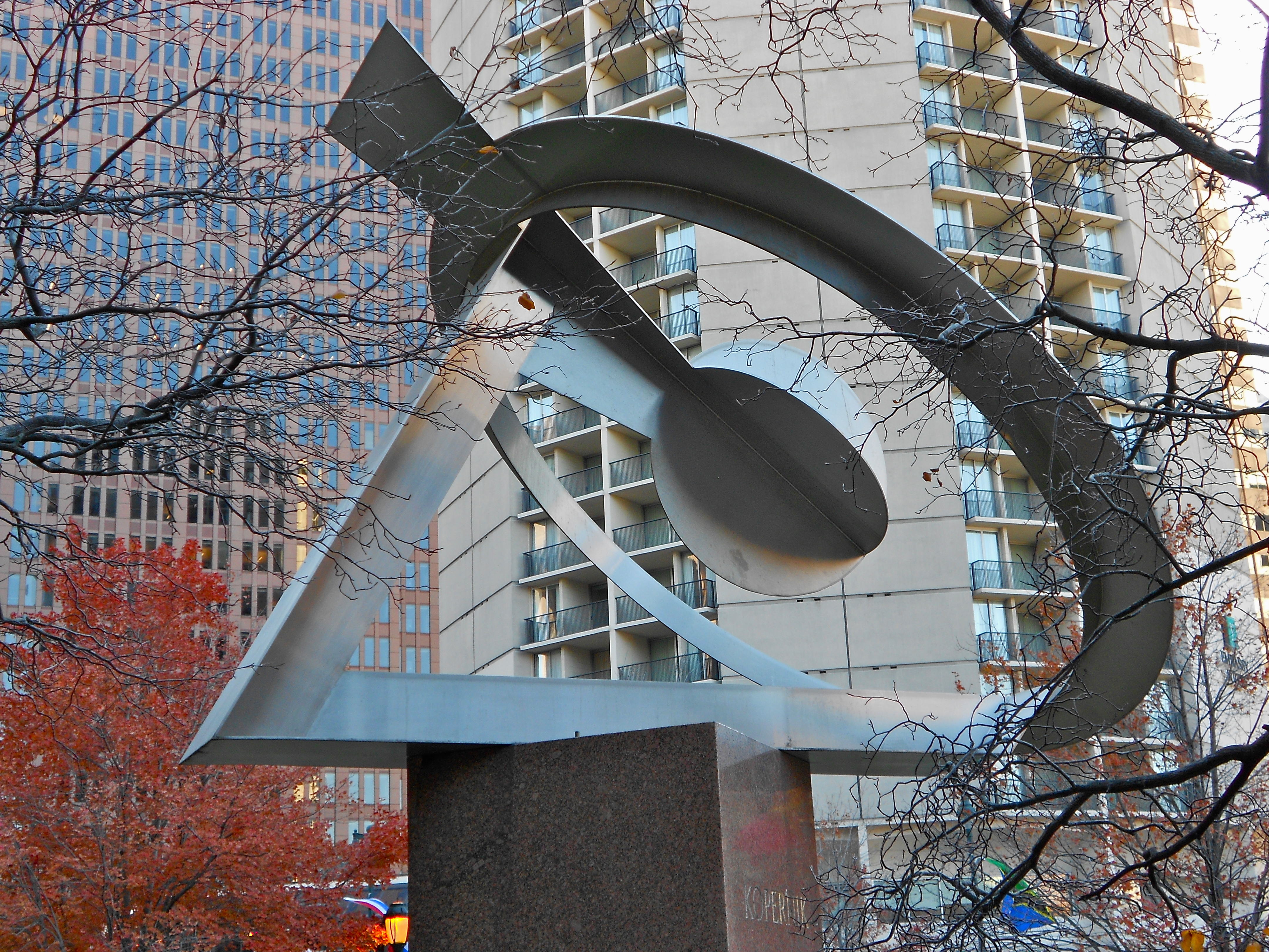 Kopernik sculpture (1972) by Dudley Talcott (1899–1986) at 18th Street and Benjamin Franklin Parkway Stainless steel, on red granite base Height 12'; diameter 16' (base height 11'8") Initiated by Polish-Americans of Philadelphia Owned by the City of Philadelphia No visible copyright notice, thus out of copyright